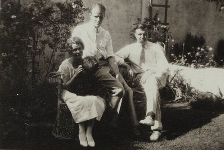 Helen Bayne Knapp/F.O. Matthiessen Papers, Beinecke 2017619. Photographs taken in Russell Cheney's studio and garden, 1925